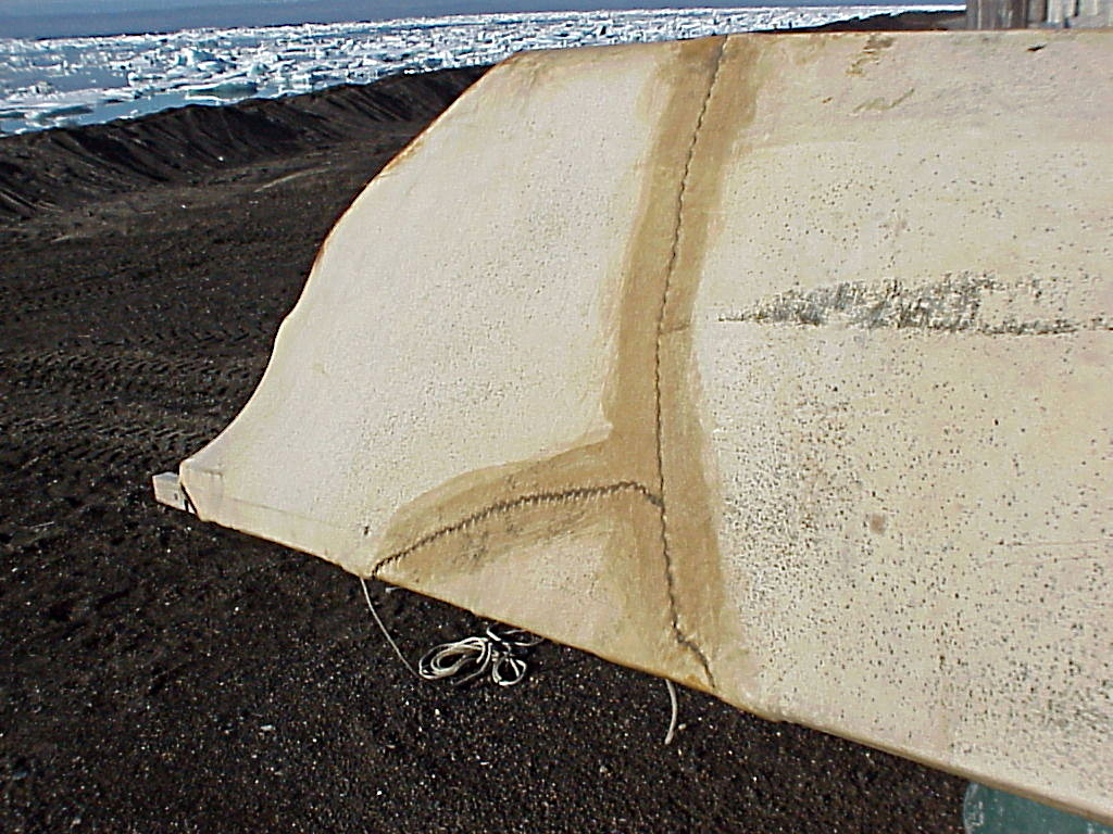 Umiaq skin boat seams where seal skins are sewn with water proof stiching. Barrow, Alaska